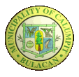 Seal of the municipality of Calumpit, Bulacan in the Philipines.